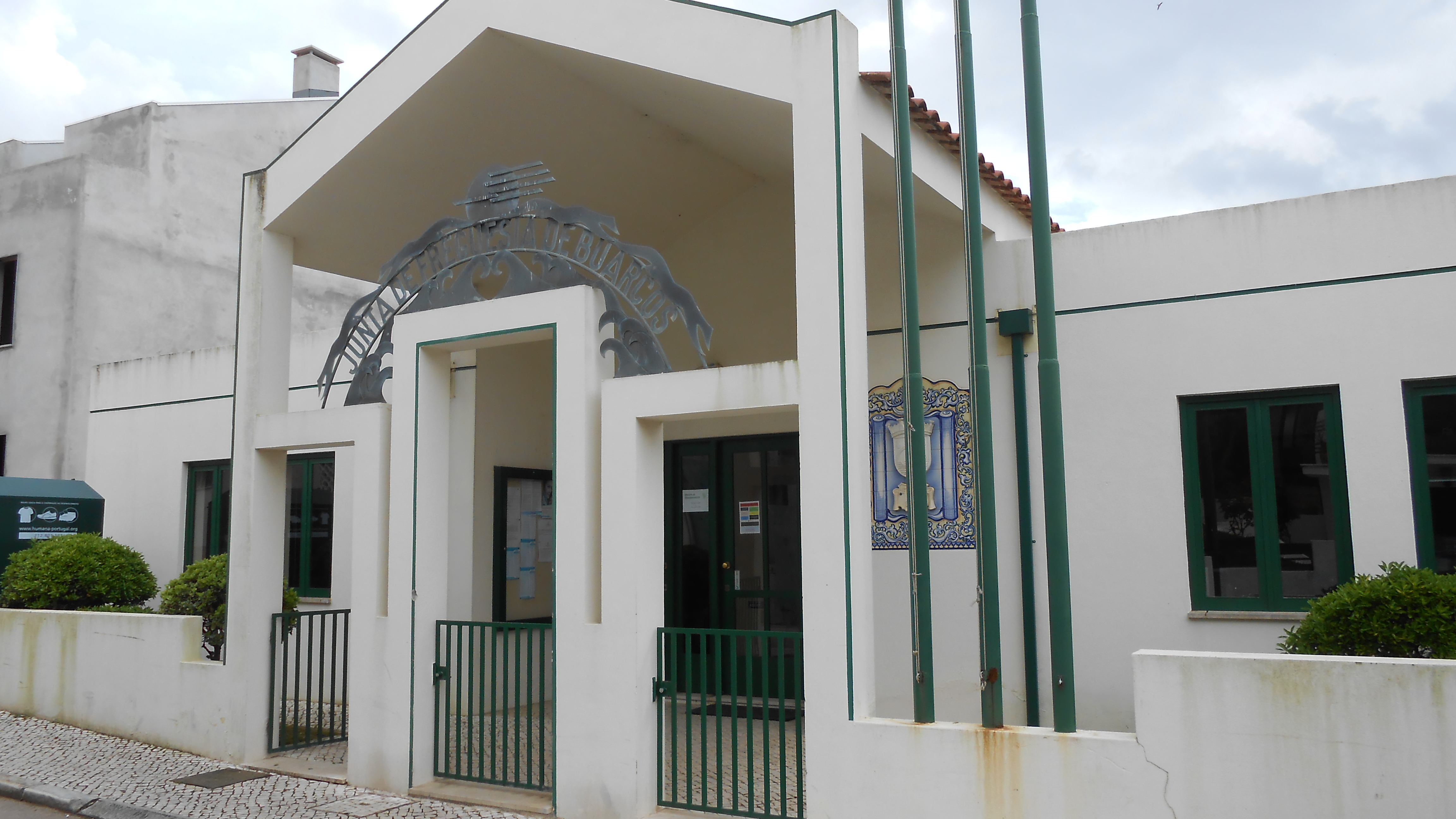 Building of the Buarcos parish administration